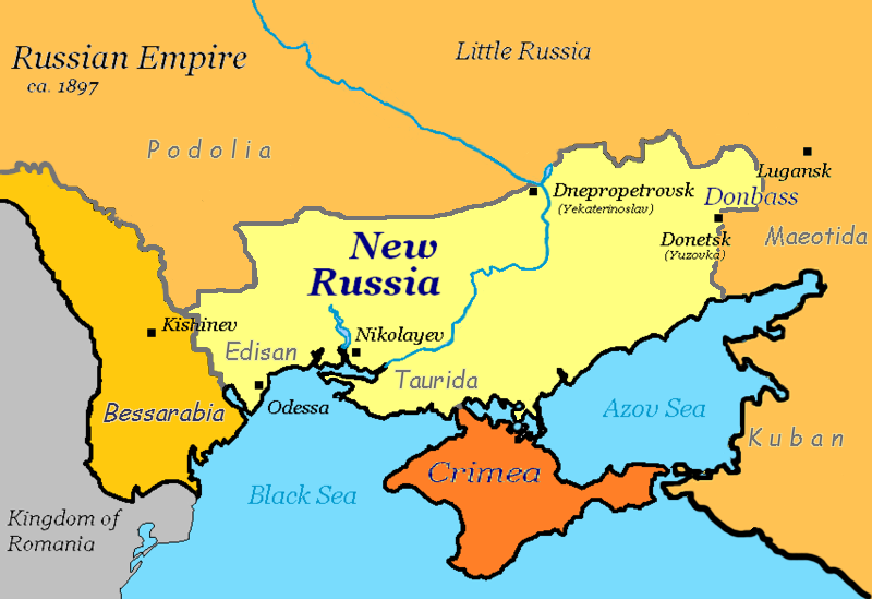 Map of what was called New Russia during the Russian Empire (now southern Ukraine).